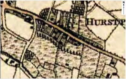 Yeakell & Gardener 1778-1783